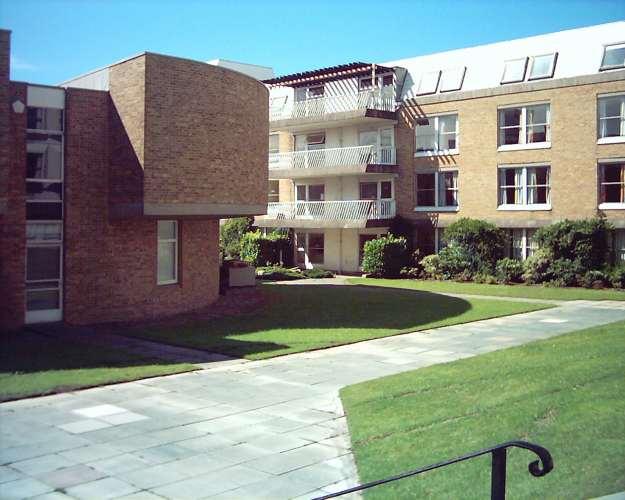 County West, Lancaster University.